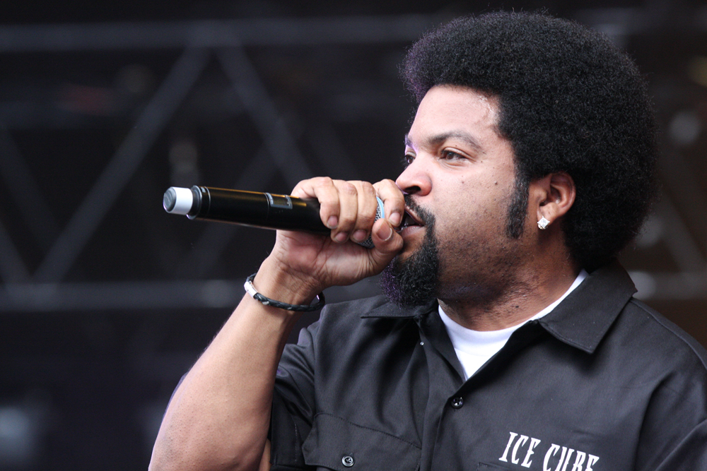 Ice Cube playing Supafest 2012, Sydney, Australia